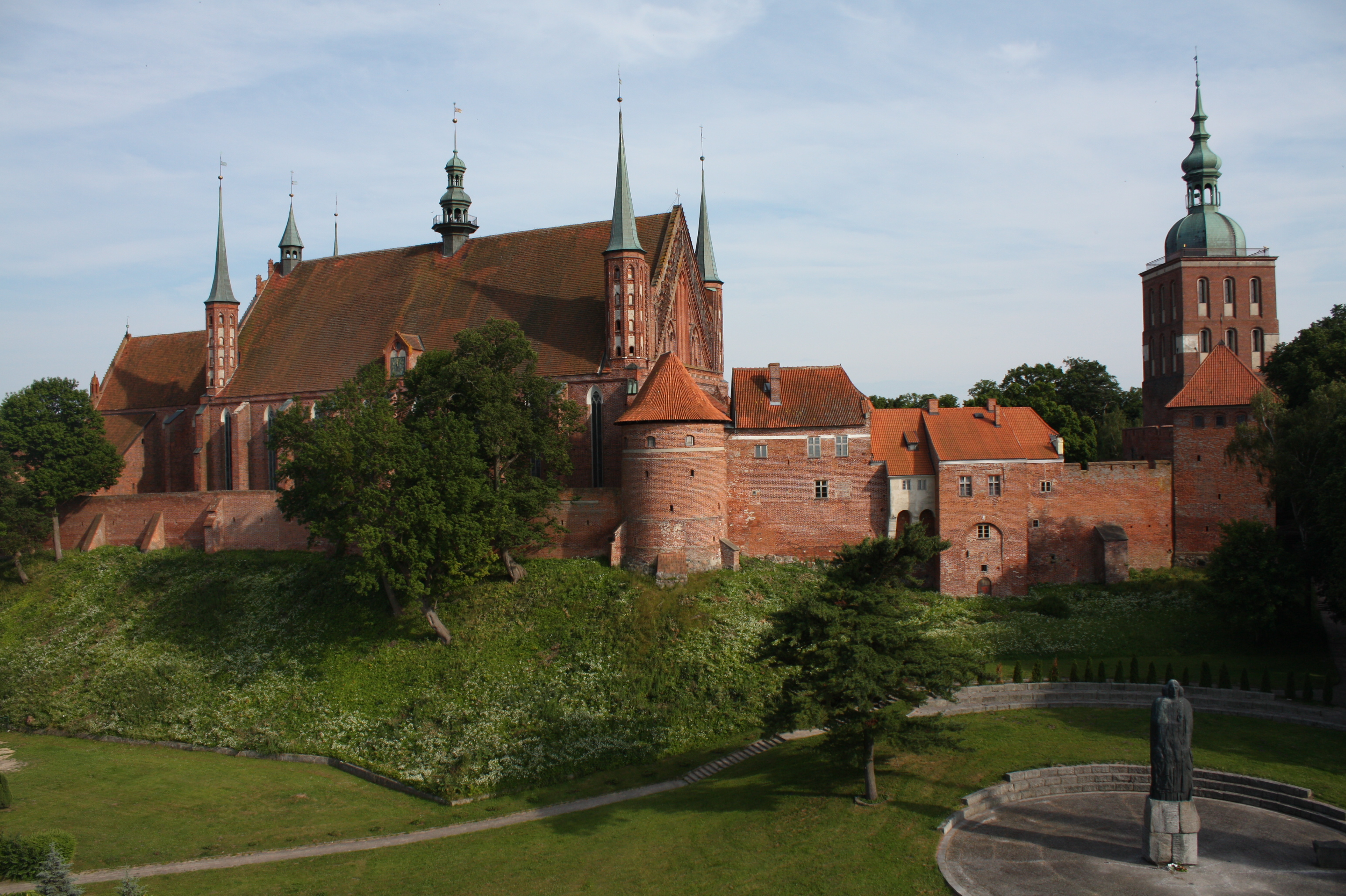 Frombork